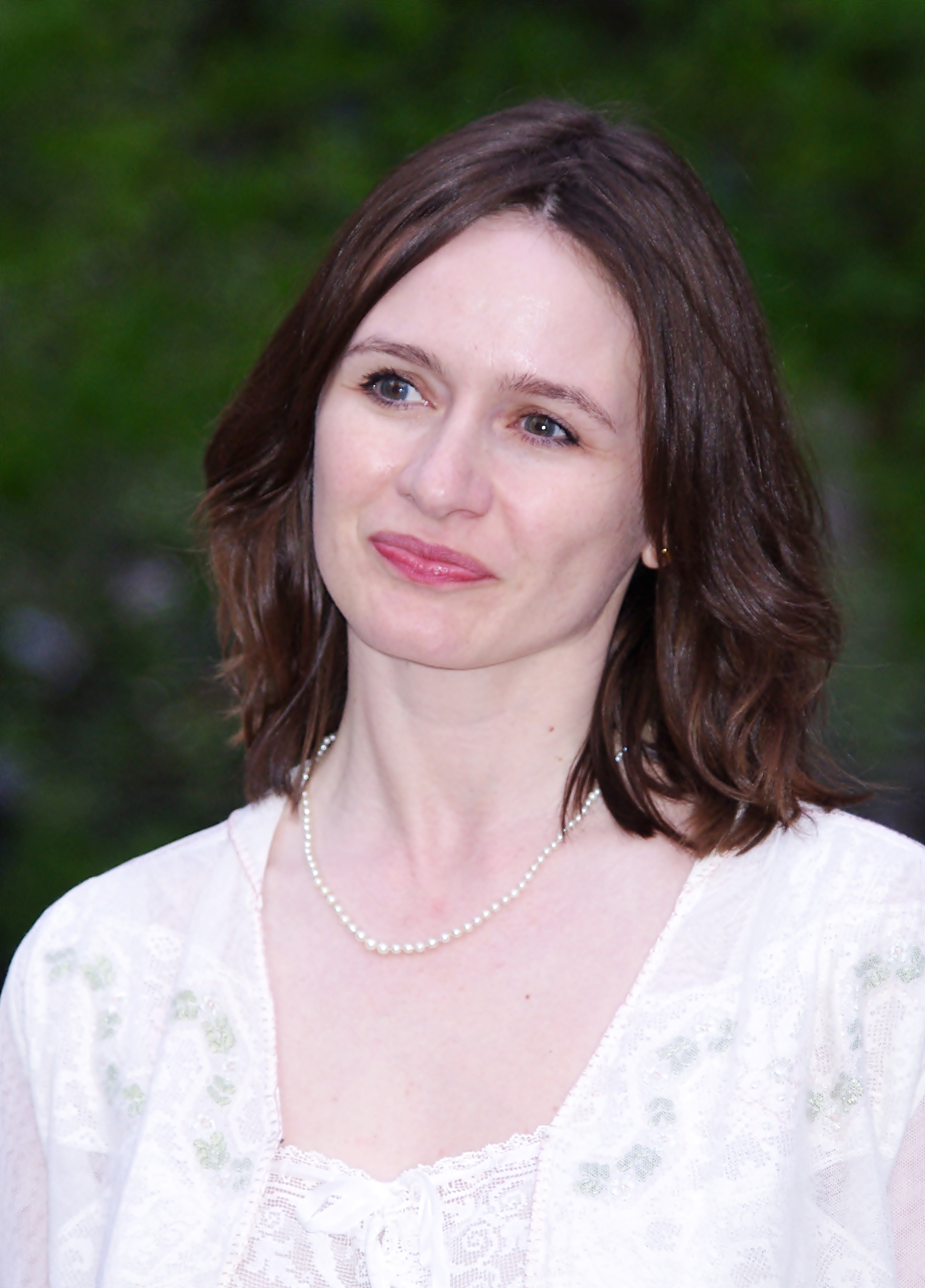 Emily Mortimer at the Vanity Fair party celebrating the 10th anniversary of the Tribeca Film Festival.